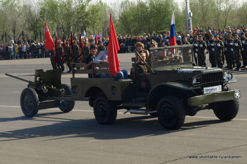 Dodge WC-51 towing a M-37 anti-tank gun on a parade in Russia.